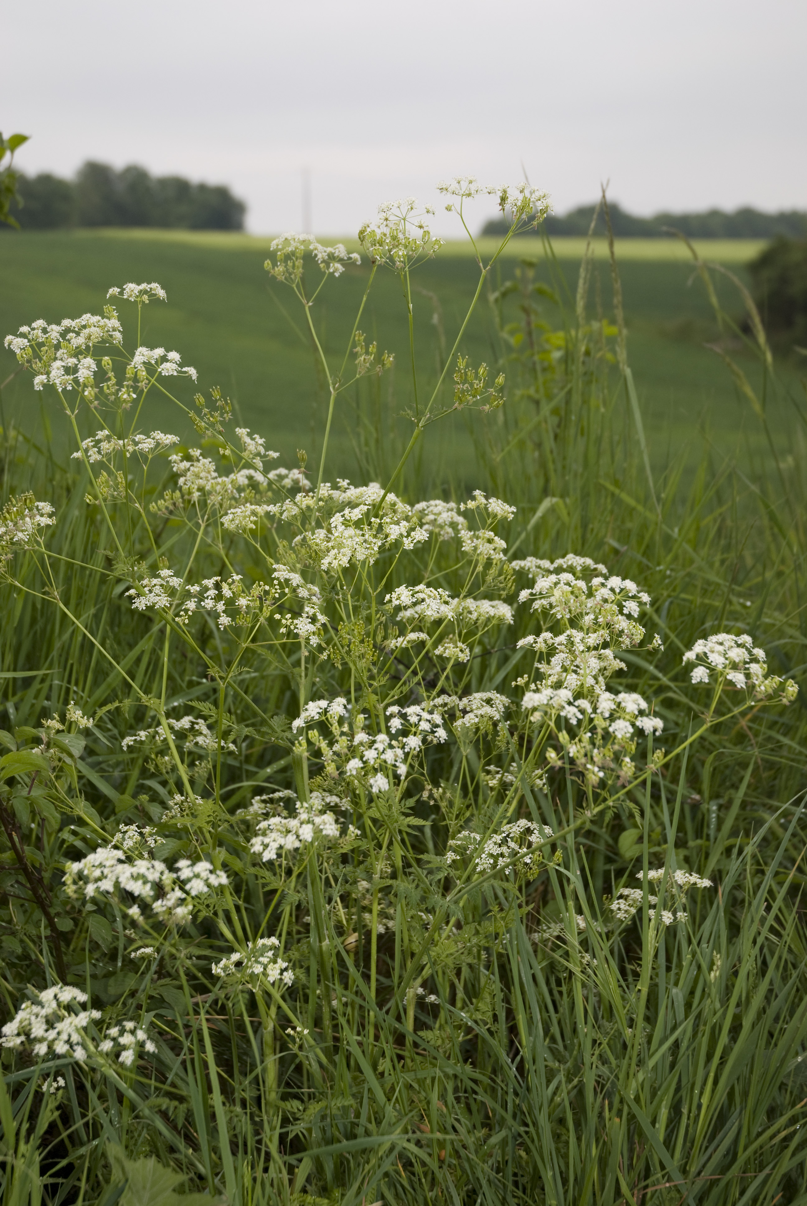 Anthriscus sylvestris in fluy (Somme), France